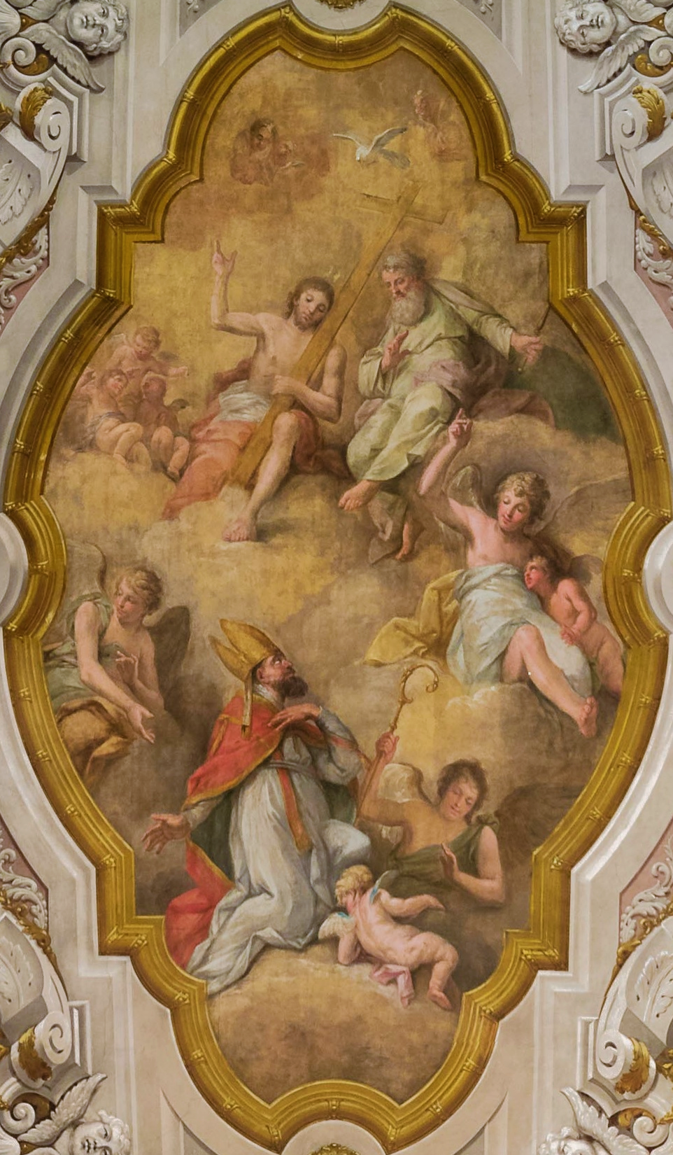 Glory of Saint Nicholas, by António Manuel da Fonseca, in the ceiling of the Church of Saint Nicholas (Igreja de São Nicolau), in Lisbon, Portugal.